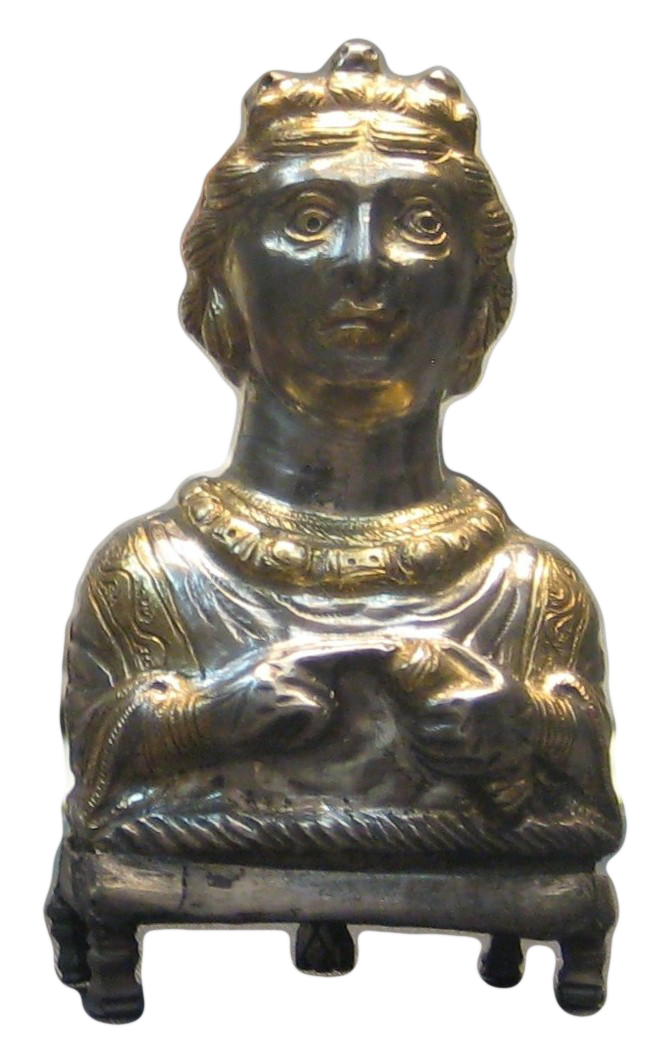 Silver pepper pot in anthropomorphic form from the Hoxne Hoard. Commonly known as the 'Empress Pepper Pot'.